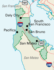 California Congressional District 12, clipped from U.S. National Atlas (printable congressional districts map section) Category:Congressional district maps of the 109th Congress